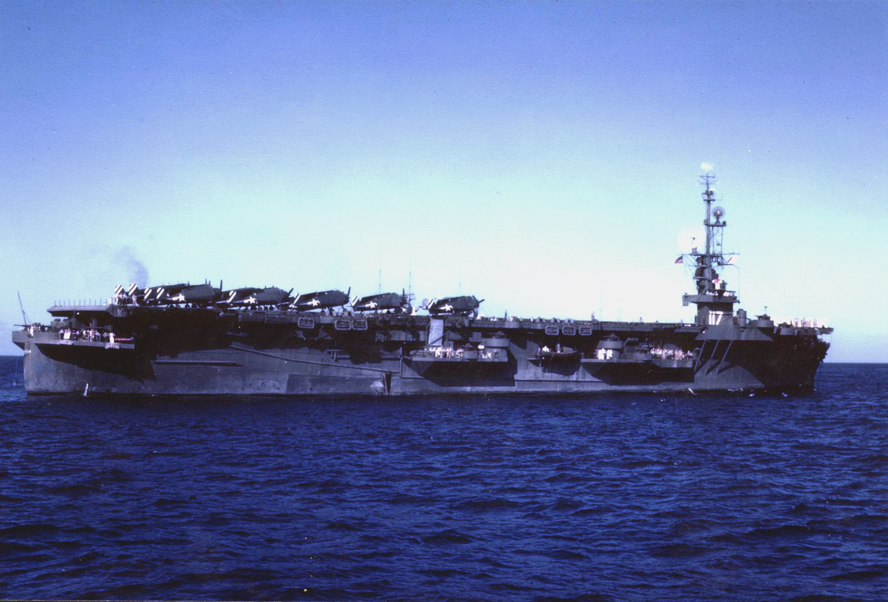 The U.S. Navy escort carrier USS Saidor (CVE-117) about to enter Pearl Harbor, Hawaii (USA), on 04 May 1946. Between 1 and 25 July, she served as a photographic laboratory for "Operation Crossroads", the atomic bomb tests at Bikini Atoll. Film was processed aboard, documenting the destructive power of atomic weapons on selected targets at various ranges.